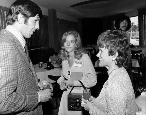 Actor Leonard Nimoy chatting with women at the Sheraton Yankee Clipper Hotel: Fort Lauderdale, Florida. Black and White 8 x 10 inch photograph housed at the State Library and Archives of Florida. Local call number: PR21603. Persistent URL: [1]